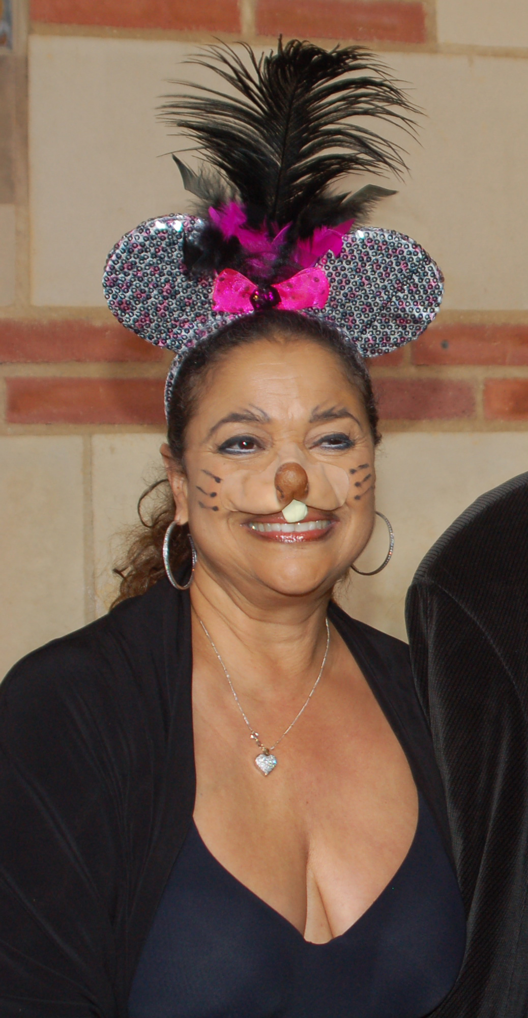 Debbie Allen at a performance of The Hot Chocolate Nutcracker in December 2010.